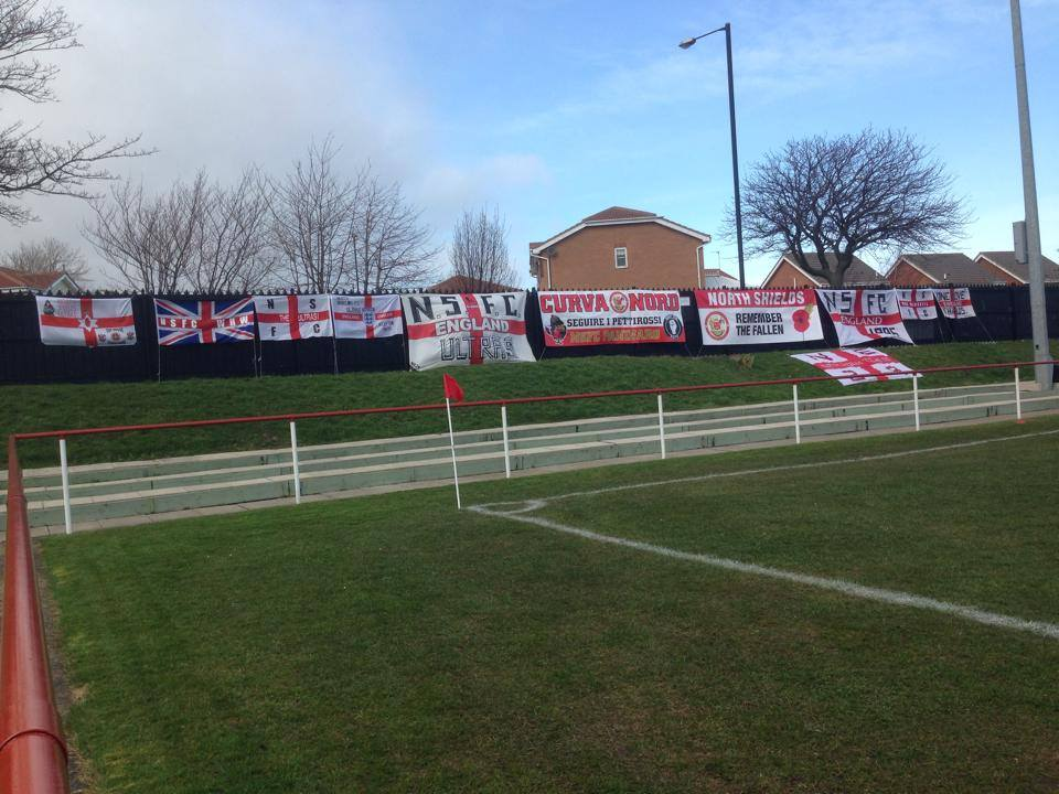 Picture of flags at North Shields FC